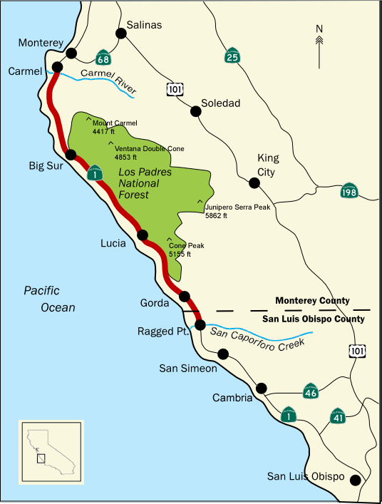 Map of the Big Sur coast region, and the northern section of Los Padres National Forest, in the California Coast Ranges of central California. Western central California. Credits slight modification of previous file version - added location of Cambria